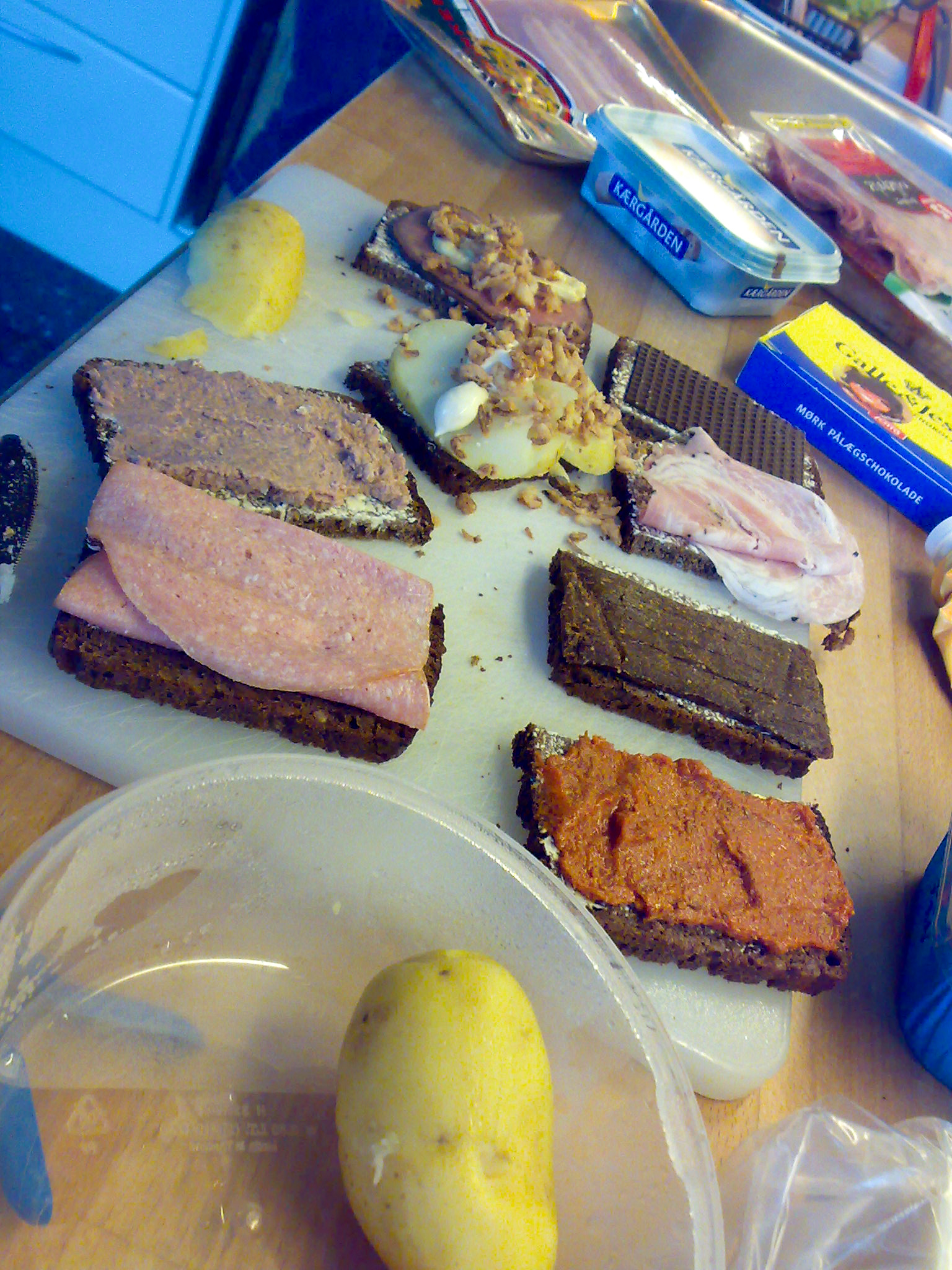 Slices to carry to work/school in a lunchbox are being prepared in the morning. Some typical Danish toppings are shown. Original text from Flickr/Steen Roar Hillebrecht: The boys are back in school and we are back to basics. Making lunch packets every morning.